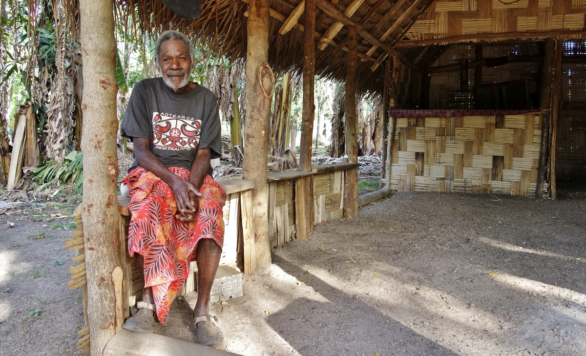 An elder from Lowanatom village in one of the village nakamals.